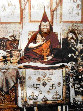 Je Pabongka